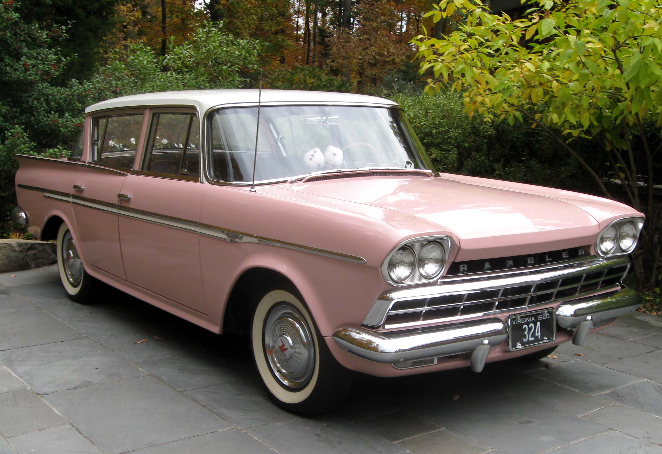 1960 Rambler Six 6015-2 photographed in Centreville, Virginia, USA.